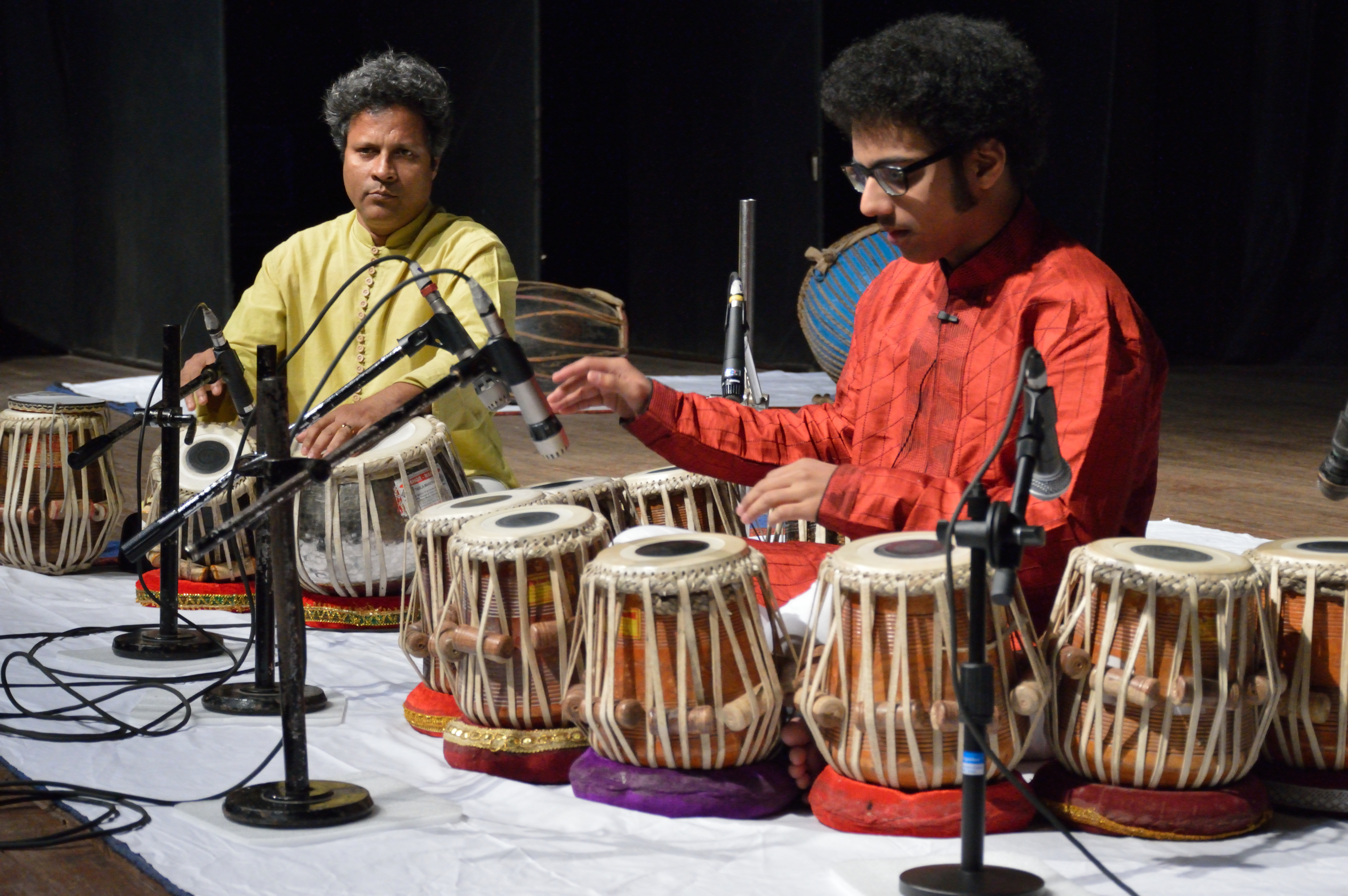 Subhadrakalyan Rana performs Tabla accompanied with Sudhir Ghorai during at the cultural session of a educational visit of the 'Hacking Space: A Student Partnership to Sustain Life on Earth' – a collaborative project with Chabot Space & Science Centre, California and the Science City, Kolkata.